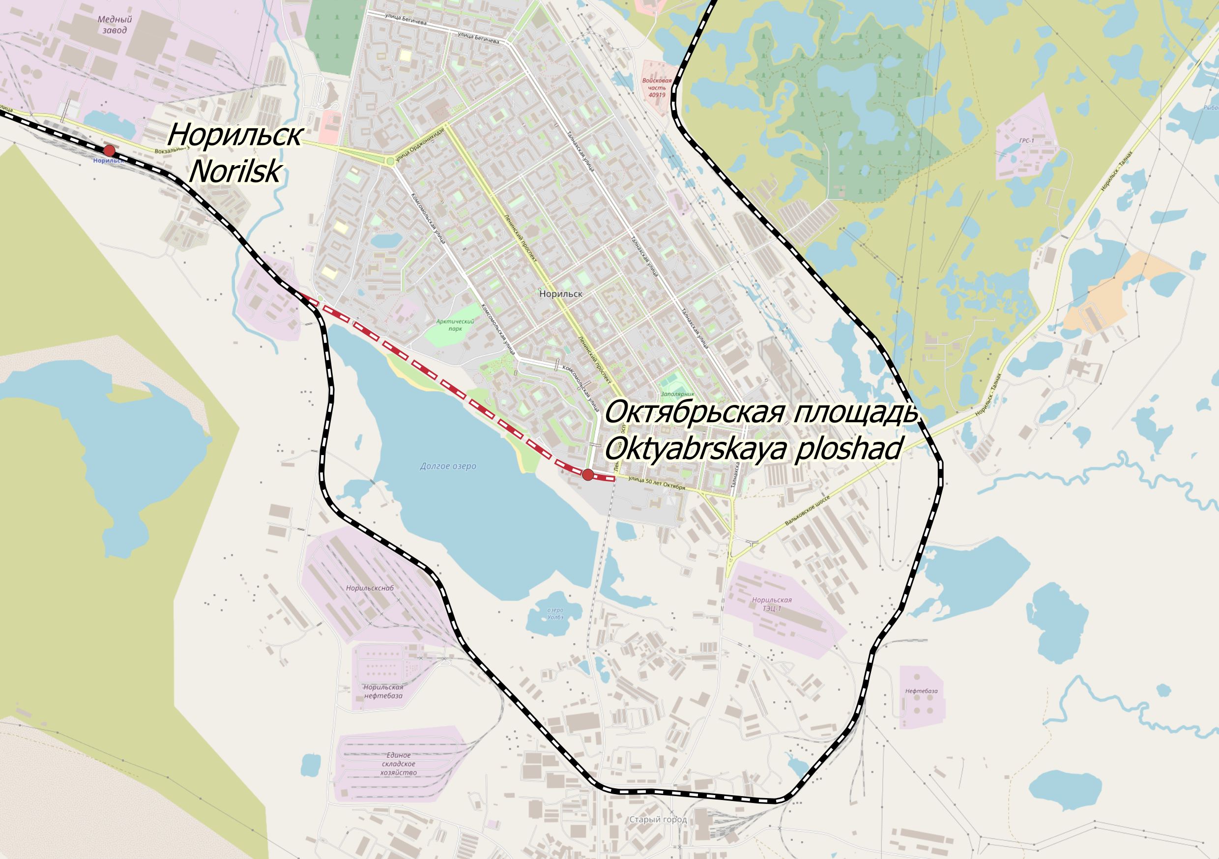 Norilsk railway Oktyabrskaya ploshad station location